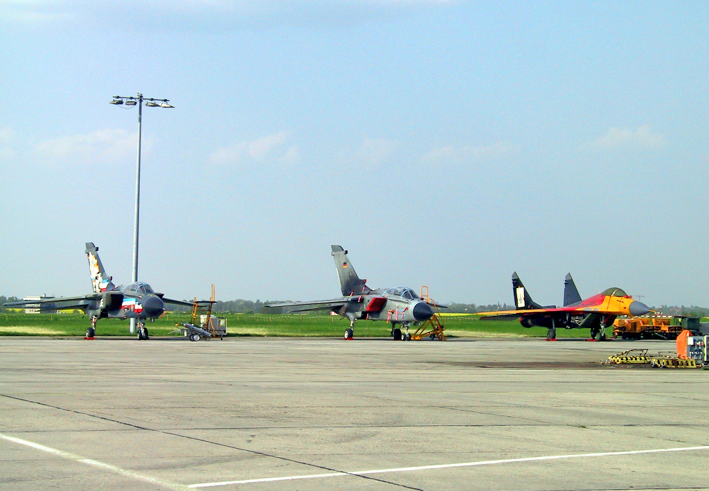 Two Panavia Tornado IDS and a Mikoyan-Gurevich MiG-29G from the German Luftwaffe at the ILA 2002 exibition in Berlin (Germany).